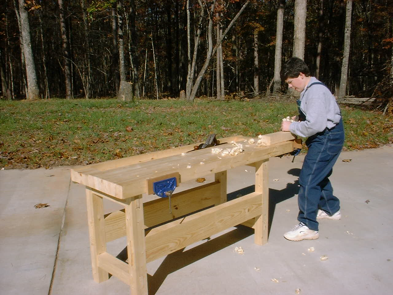 A basic workbench. David (the photographer's son) planes a board using the end vice.